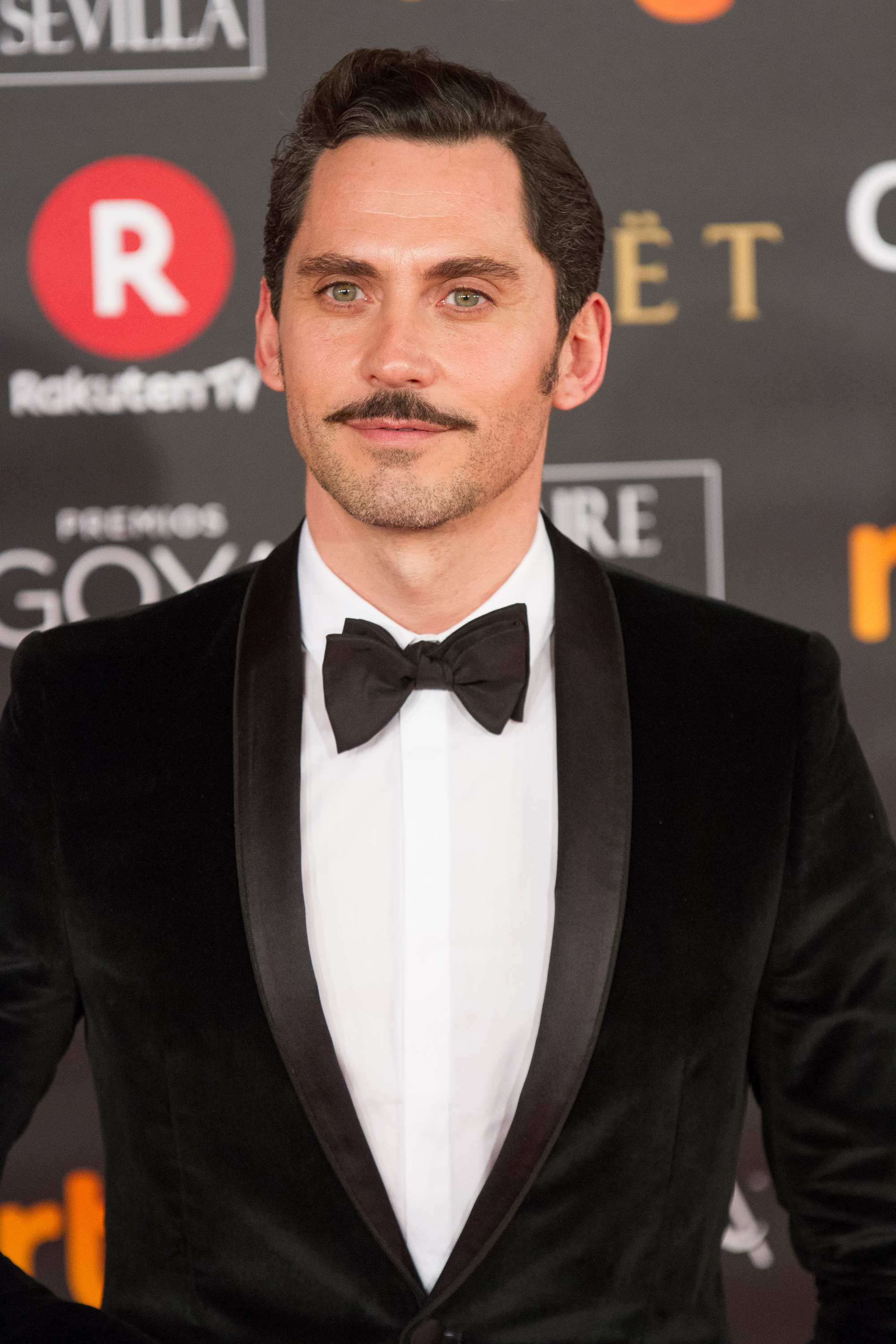 32nd Goya Awards, 2018.